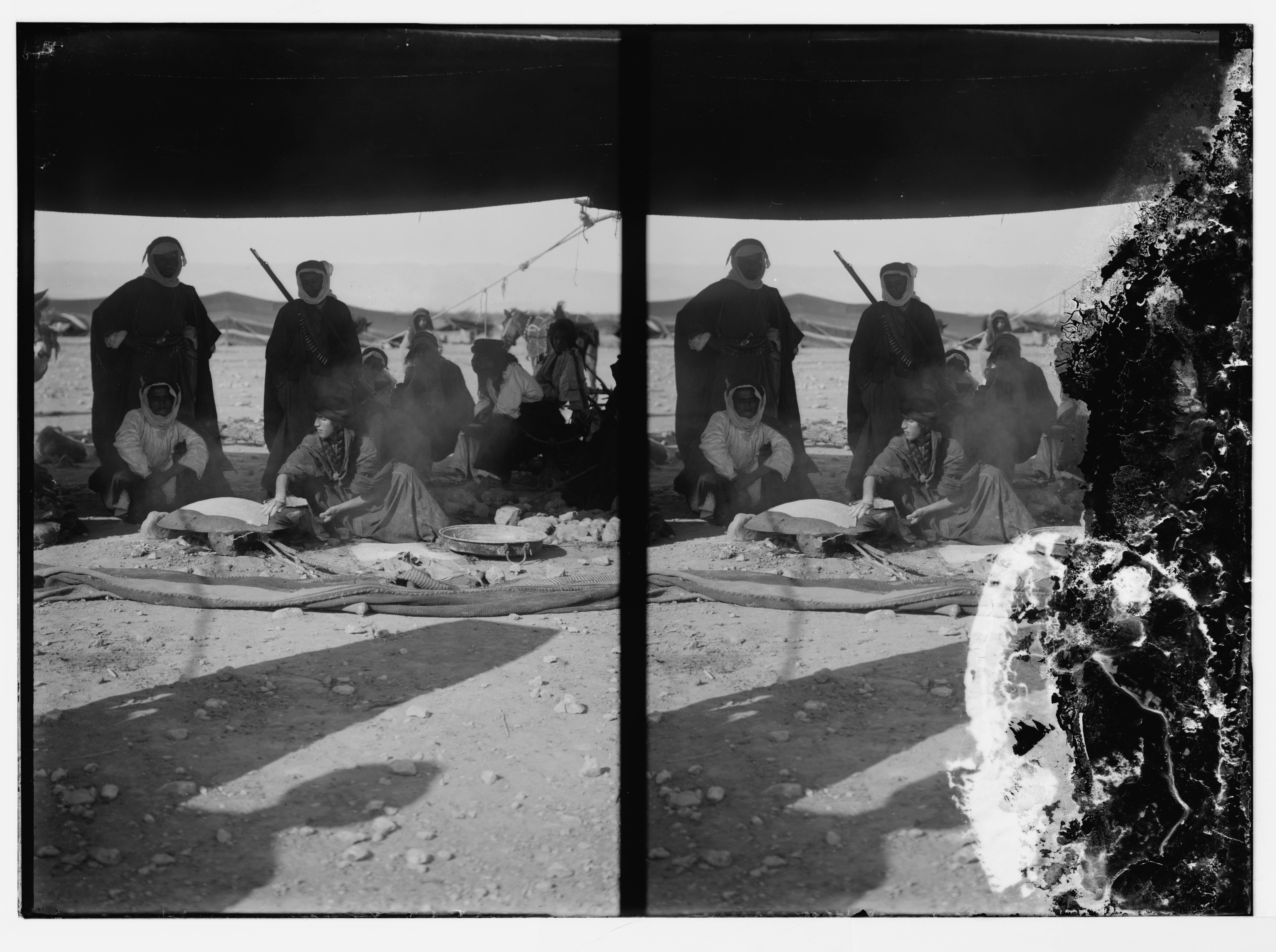 Title: Beduin [i.e., Bedouin] women baking Abstract/medium: G. Eric and Edith Matson Photograph Collection Physical description: 1 negative